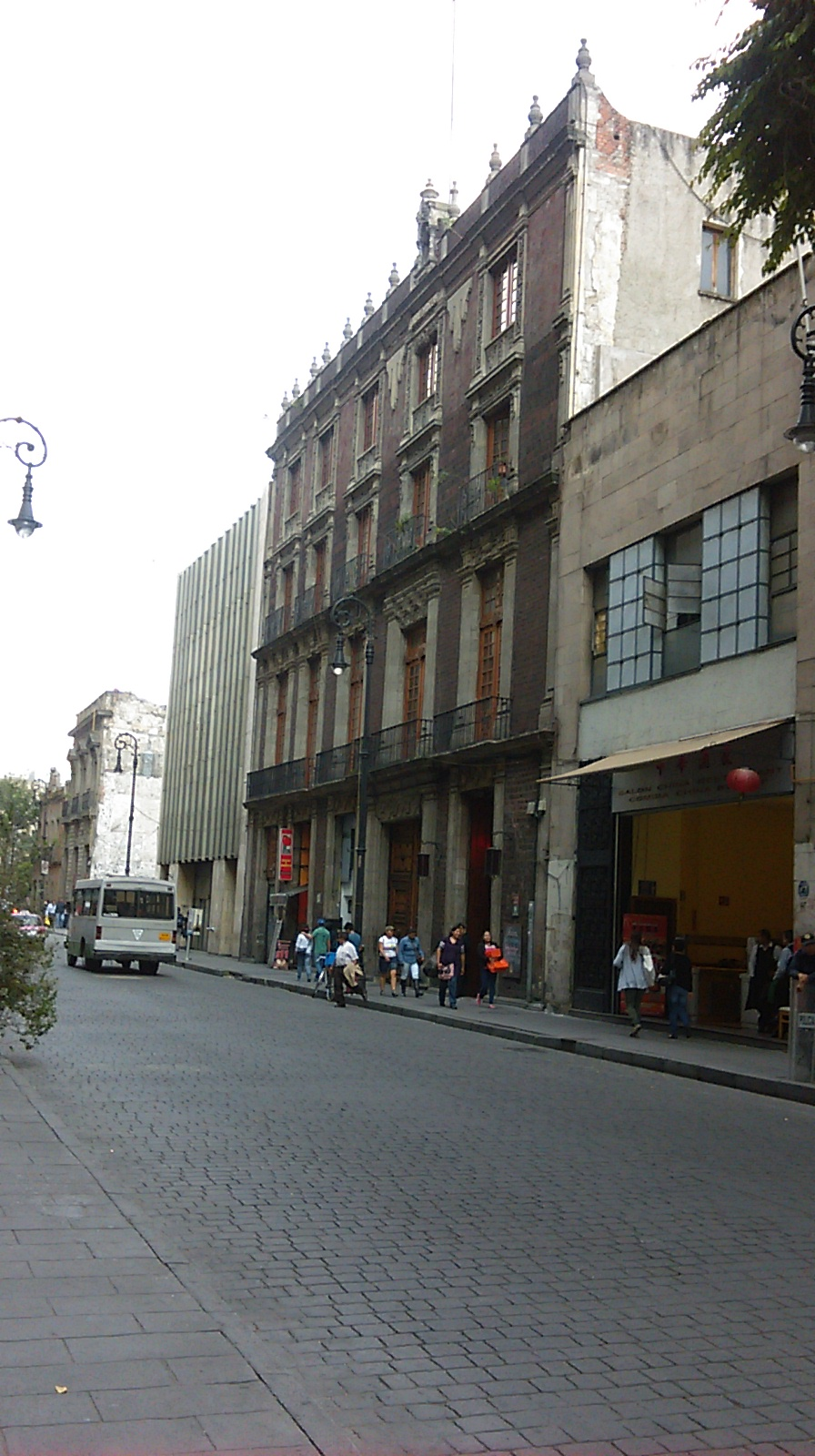 Gabriel Mancera's house (Venustiano Carranza St., 49, Historic Center of Mexico City), today Mancera Bar.